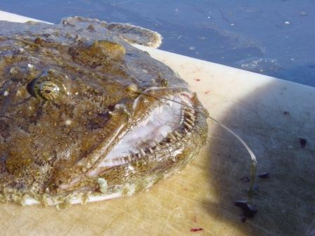 Lophius piscatorius, with his clearly visible angel